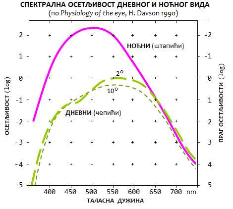 ДНЕВНА И НОЋНА СПЕКТРАЛНА ОСЕТЉИВОСТ ЉУДСКИГ ОКА